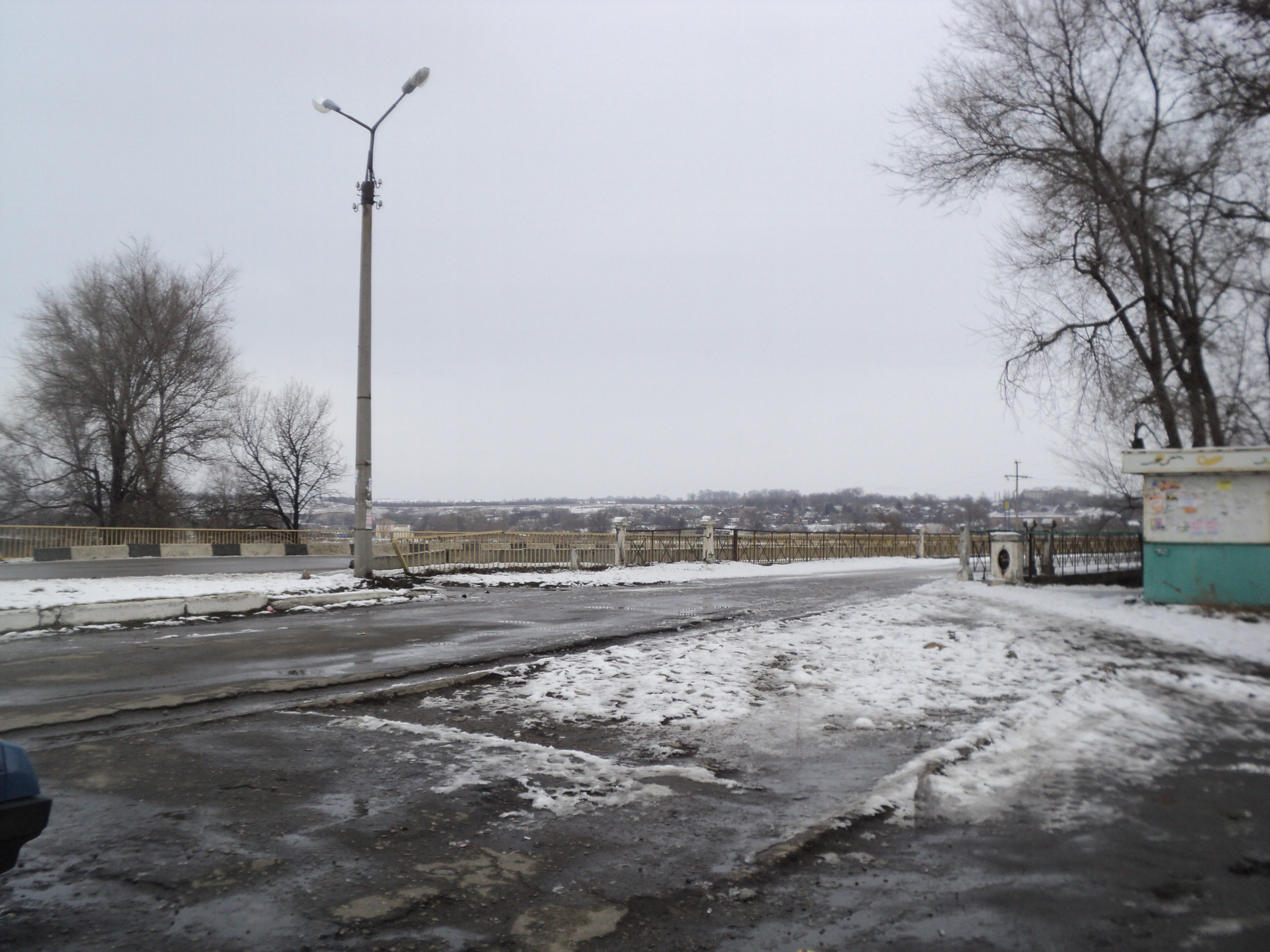 The bridge over the Kinska in the Orikhiv